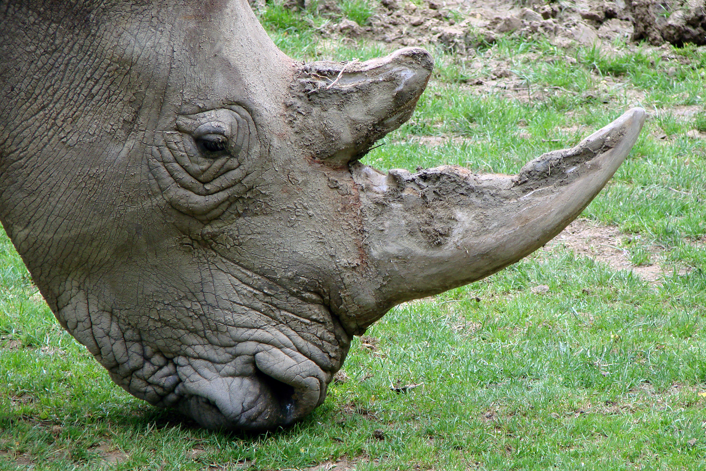 Southern white rhinoceros (Ceratotherium simum simum). ZooParc de Beauval,Loir-et-Cher,France.